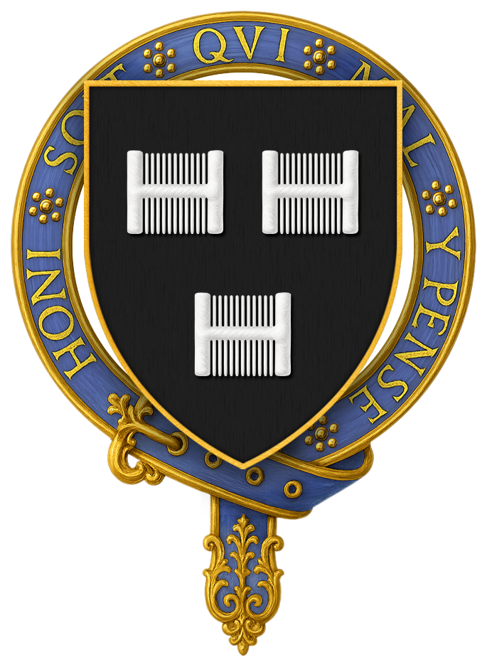 Sir Richard Tunstall, KG HOPE, W. H. St. John, The Stall Plates of the Knights of the Order of the Garter 1348 – 1485: A Series of Ninety Full-Sized Coloured Facsimiles with Descriptive Notes and Historical Introductions, Westminster: Archibald Constable and Company LTD, 1901. “ Plate LXXXVIII - Sir Richard Tunstall, K.G. 1484... the arms, sable three combs silver... ” The Stall plate remains intact within the twenty-second stall, on the north side of the quire.